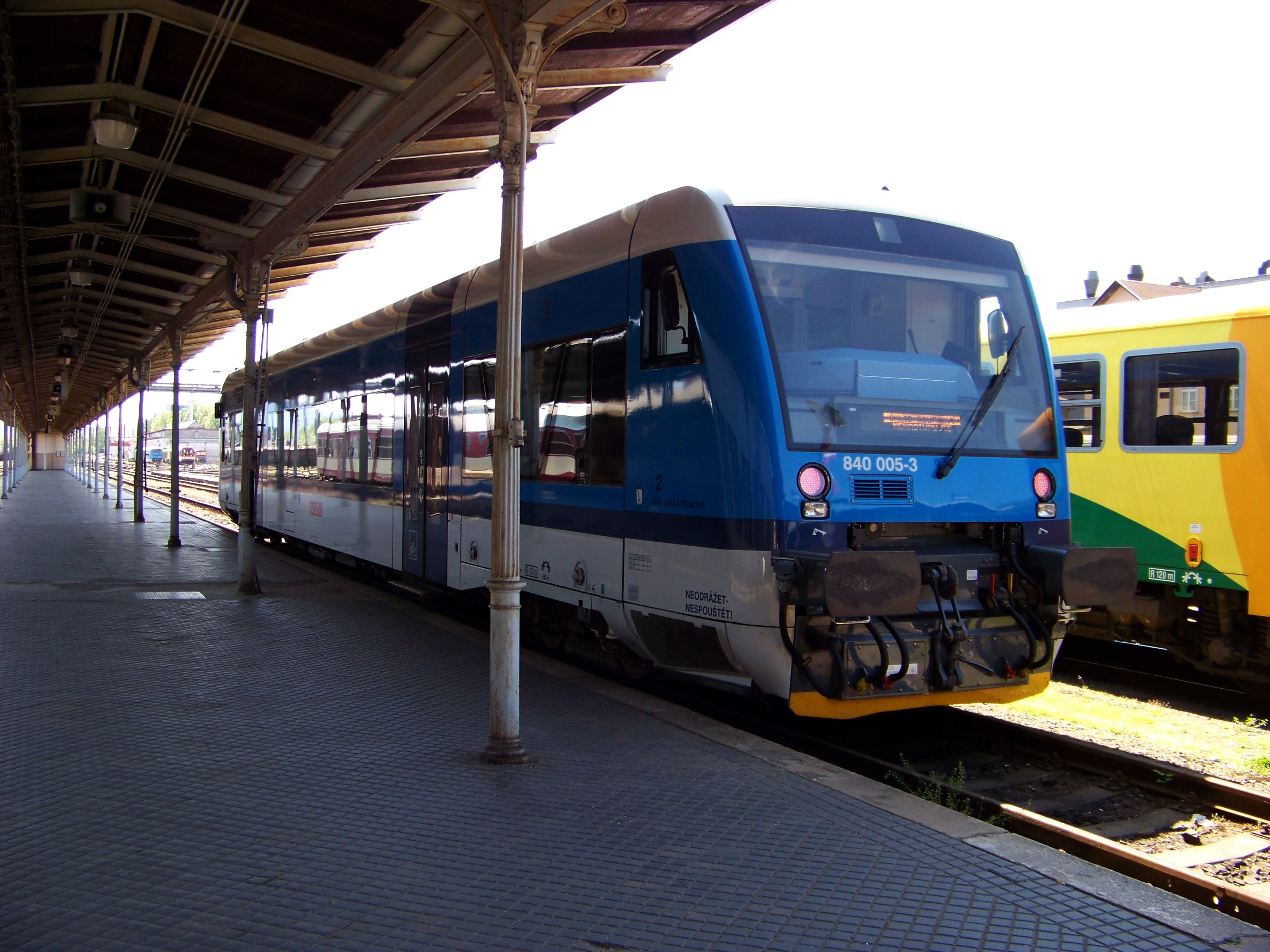 Liberec-Jeřáb, Liberec District, Liberec Region, the Czech Republic. Diesel multiple unit Stadler Regio-Shuttle RS1 840.005.